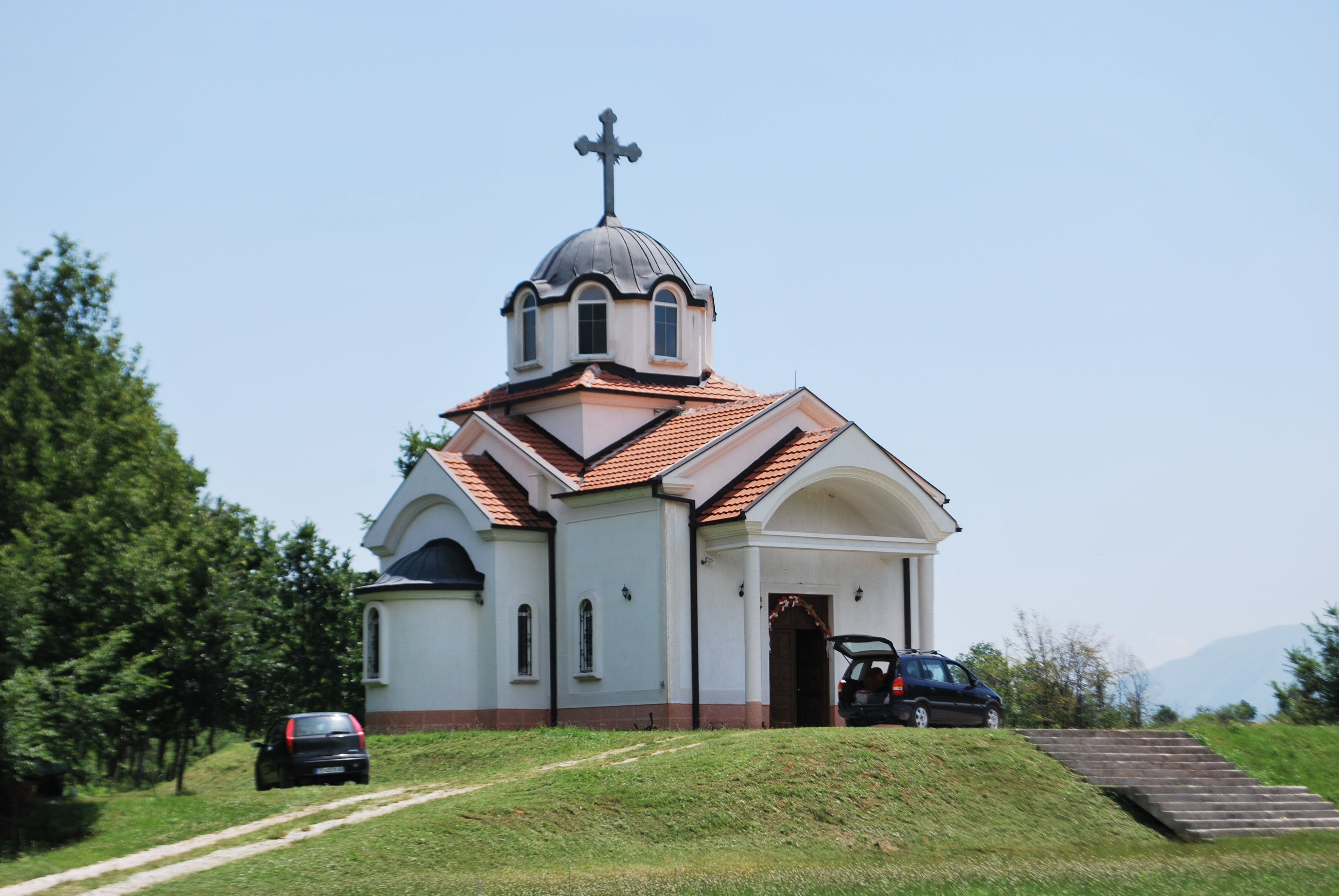 Sts. Constantine and Helena Church in Vratnica, Macedonia